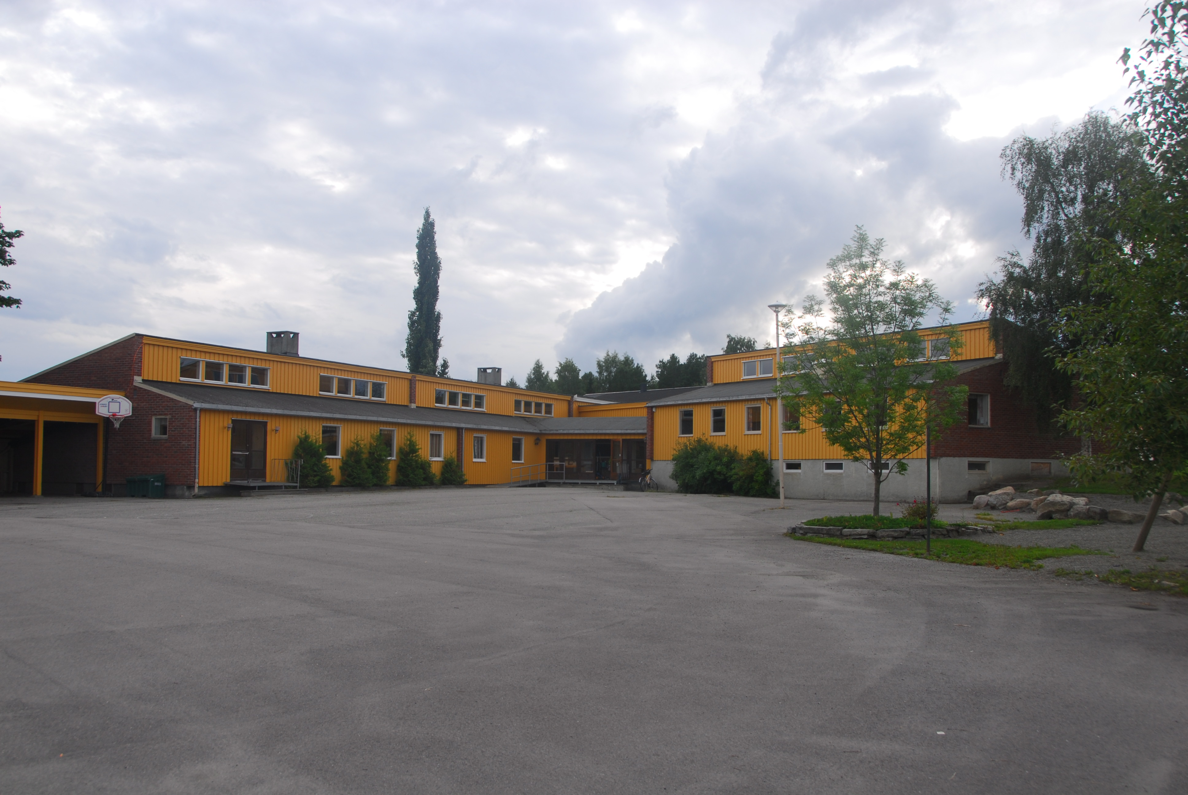 Main bulding of Utøy School in Inderøy, Norway